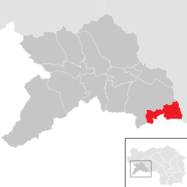 district Murau